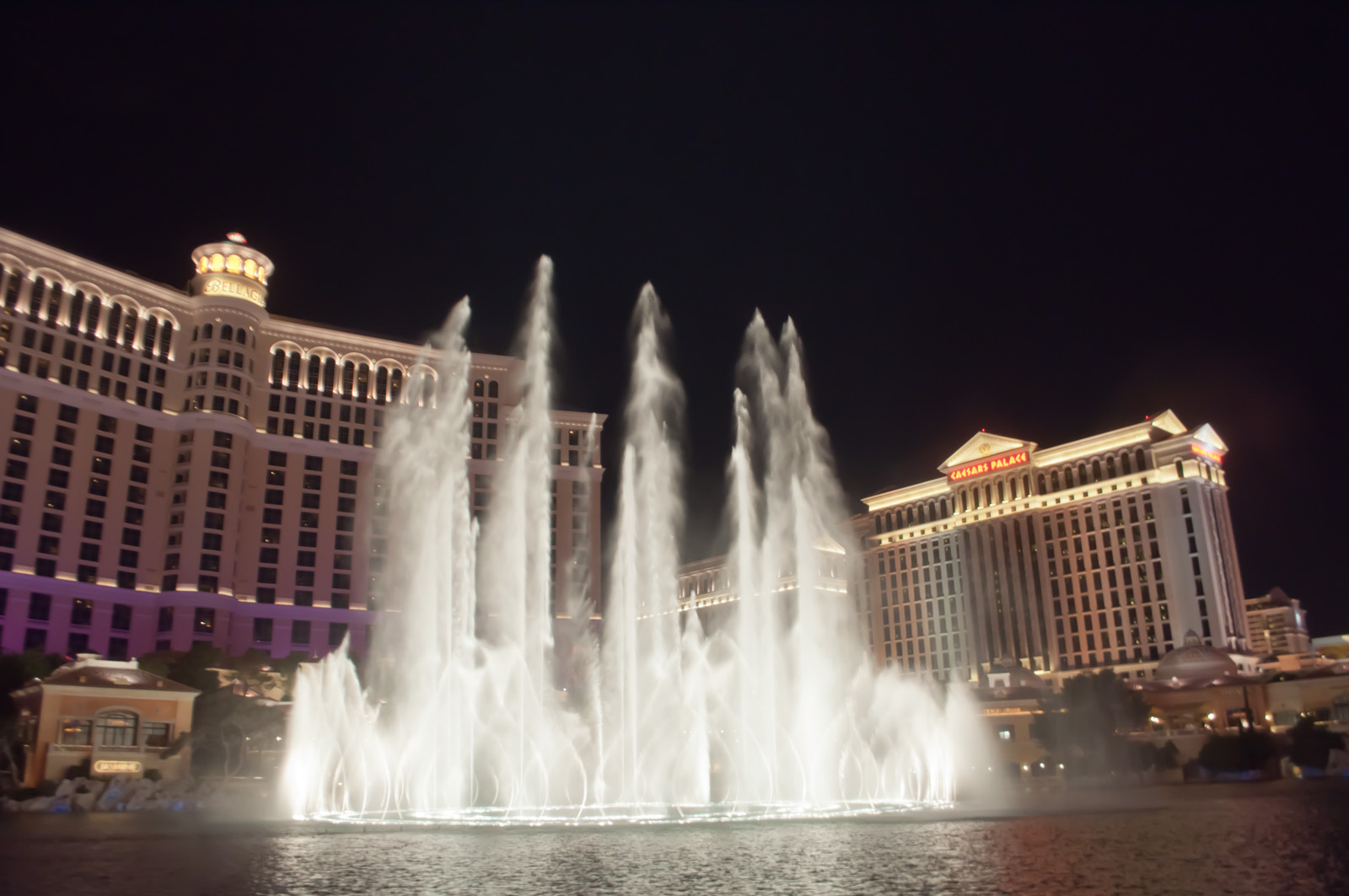 Every 15 minutes from sunset until midnight, the Bellagio uses its water jets, located on "Lake Como," to put on a musical fountain show. For this performance, the soundtrack is "This Kiss" by Faith Hill. Bellagio, built in the late 1990s, stands on the site of the famed Dunes casino, which had been imploded in 1993.